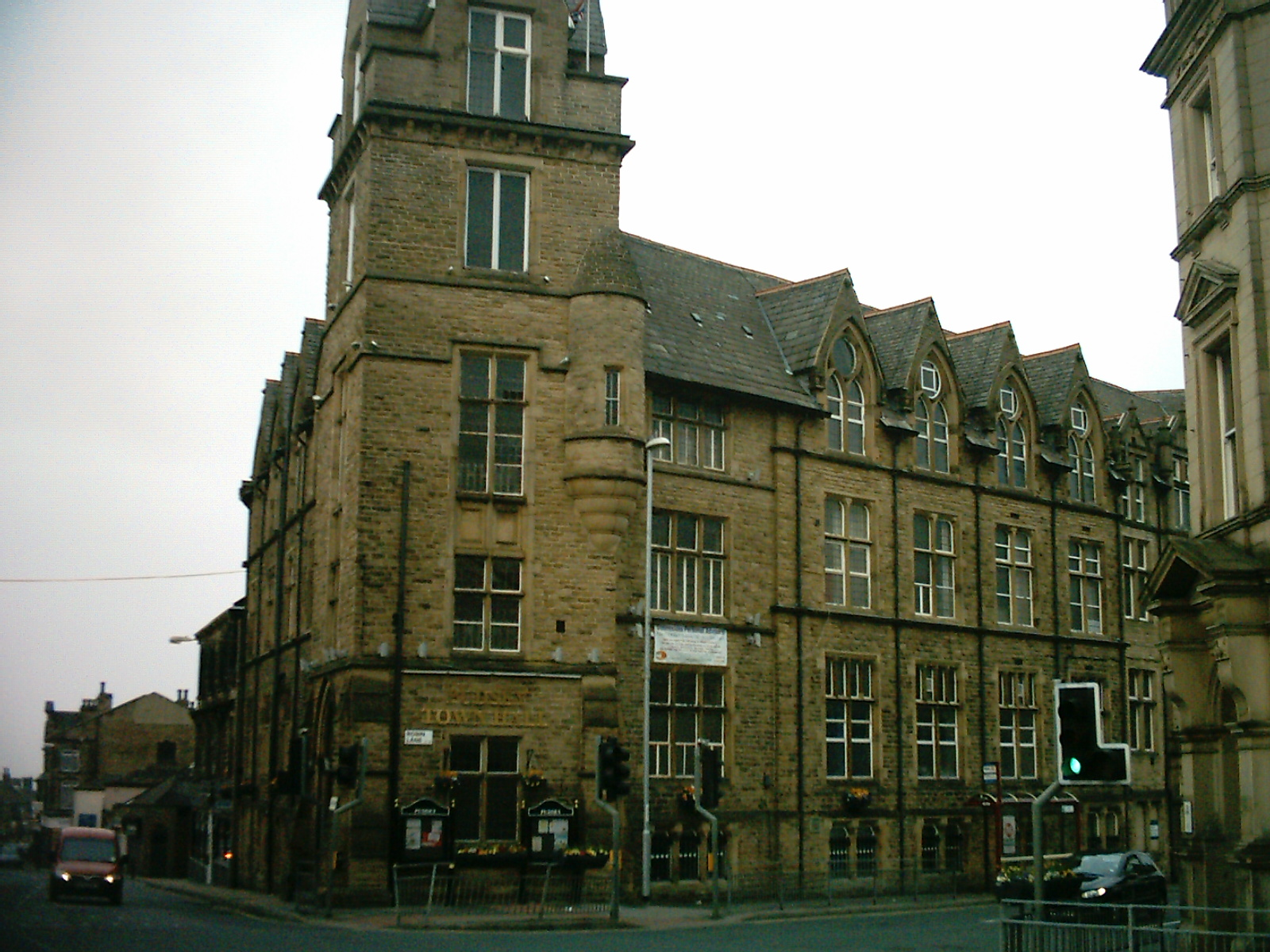 Pudsey Town Hall in Pudsey, Leeds, West Yorkshire, UK. April 2009.